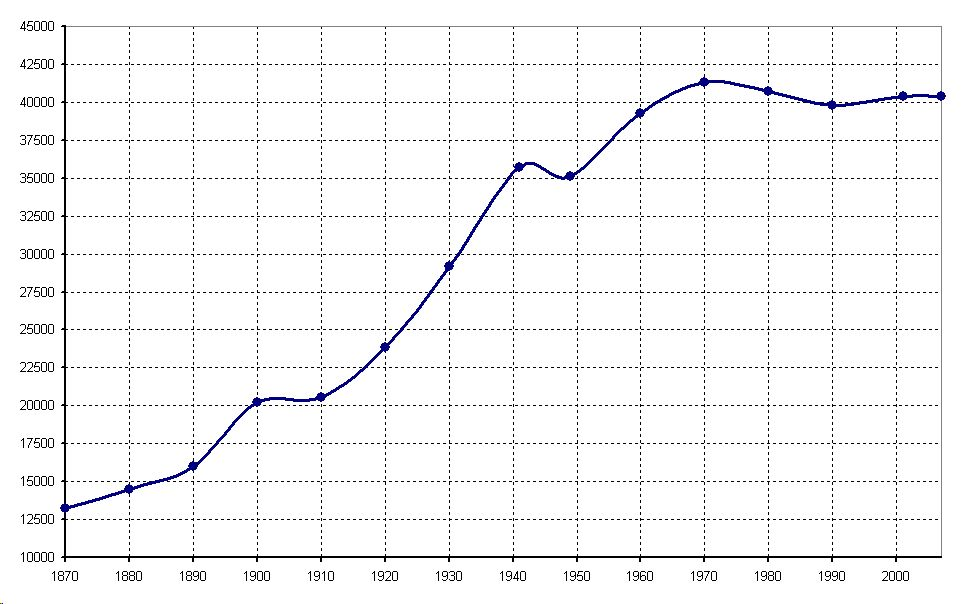 Population change of Dorog subregion